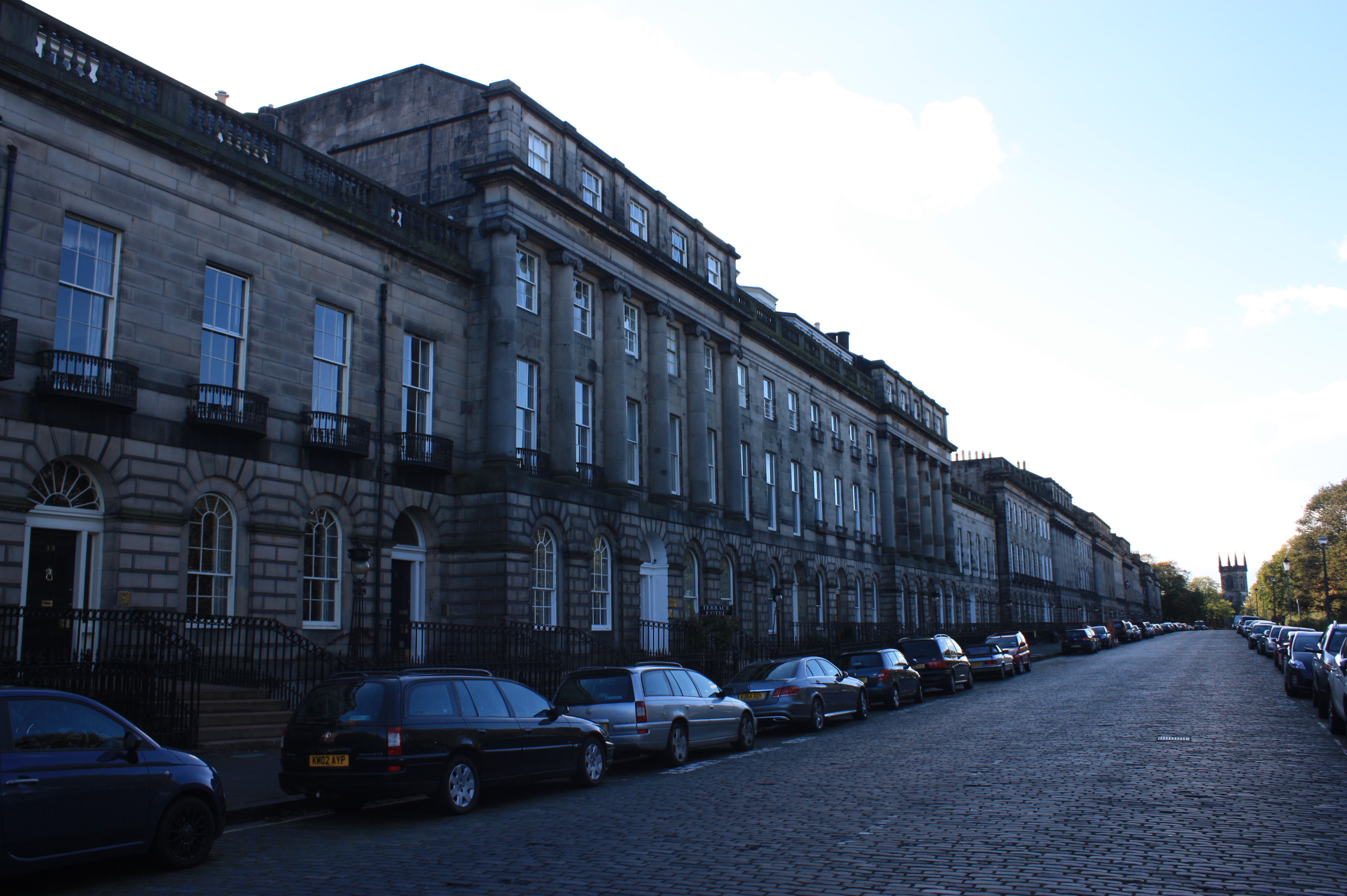 Regent Terrace, Edinburgh